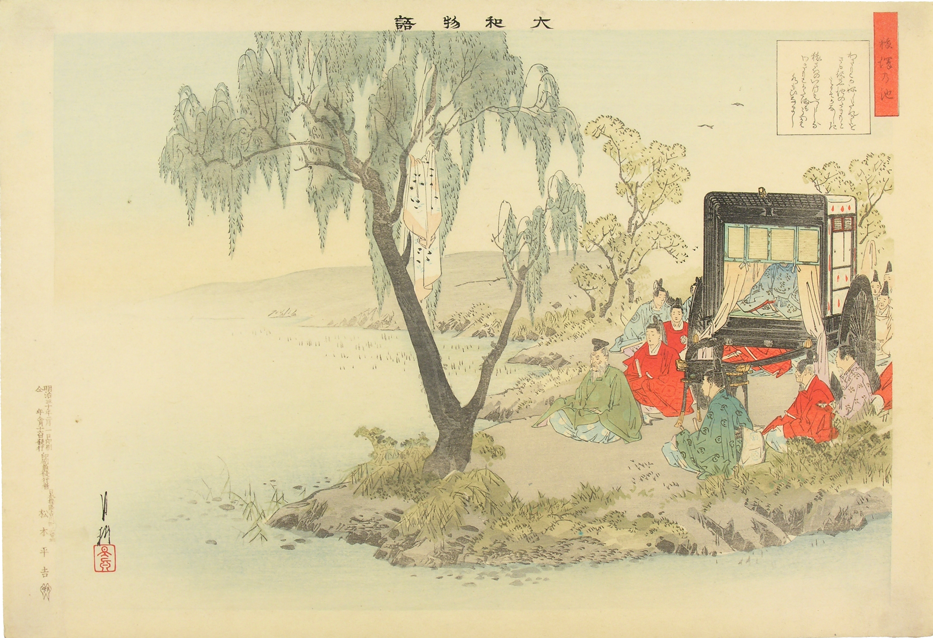 The emperor and the poet Kakinomoto no Hitomaro